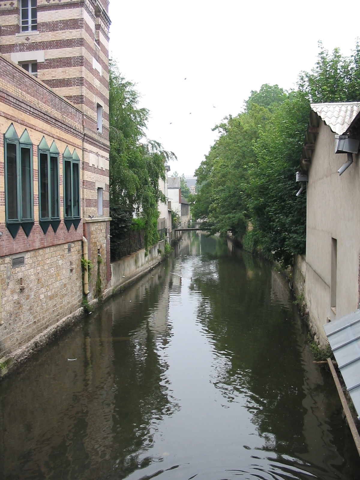 The Blaise, a tributary of the Eure in Dreux